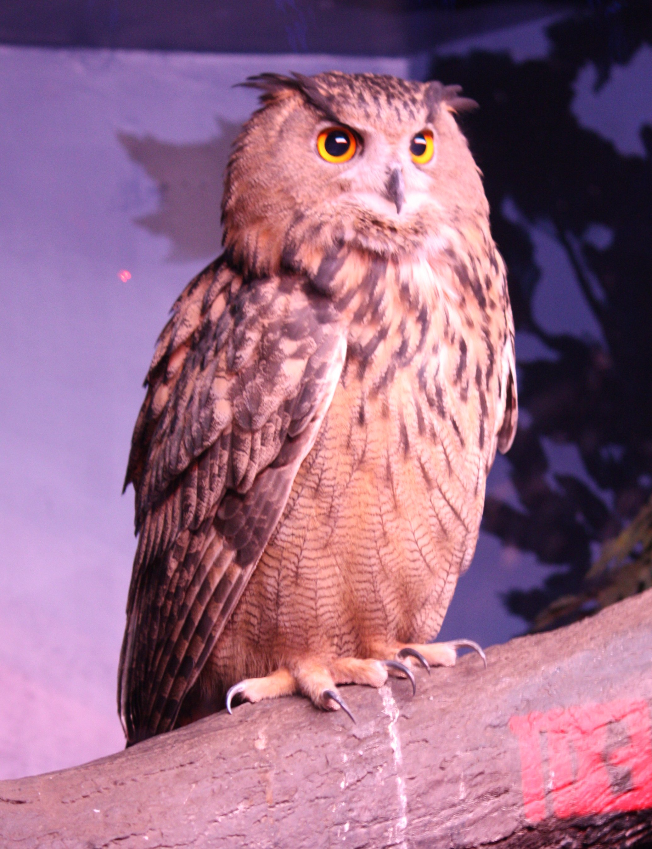 Eurasian Eagle Owl Bubo bubo at Cincinnati Zoo